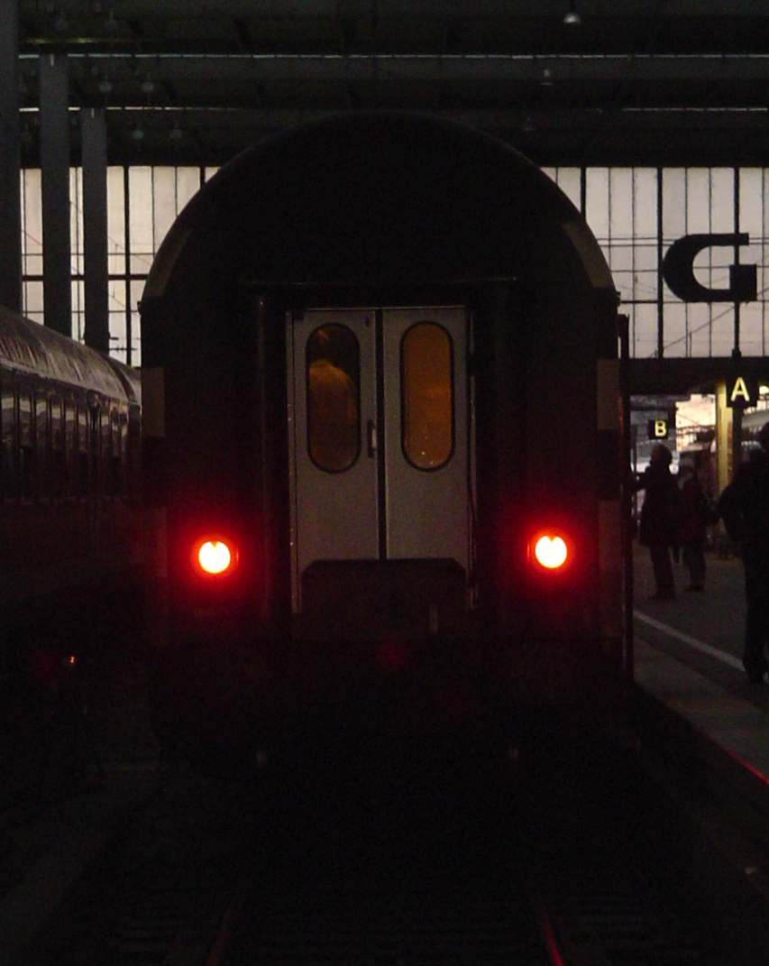 train tail light on passenger train rear end in Munich Central Station